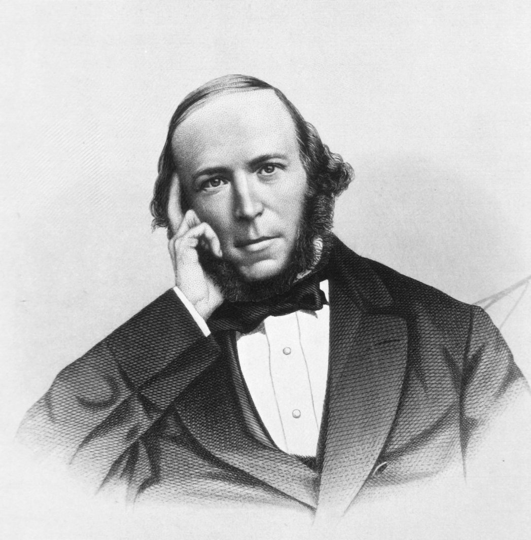 Herbert Spencer (1820-1903)